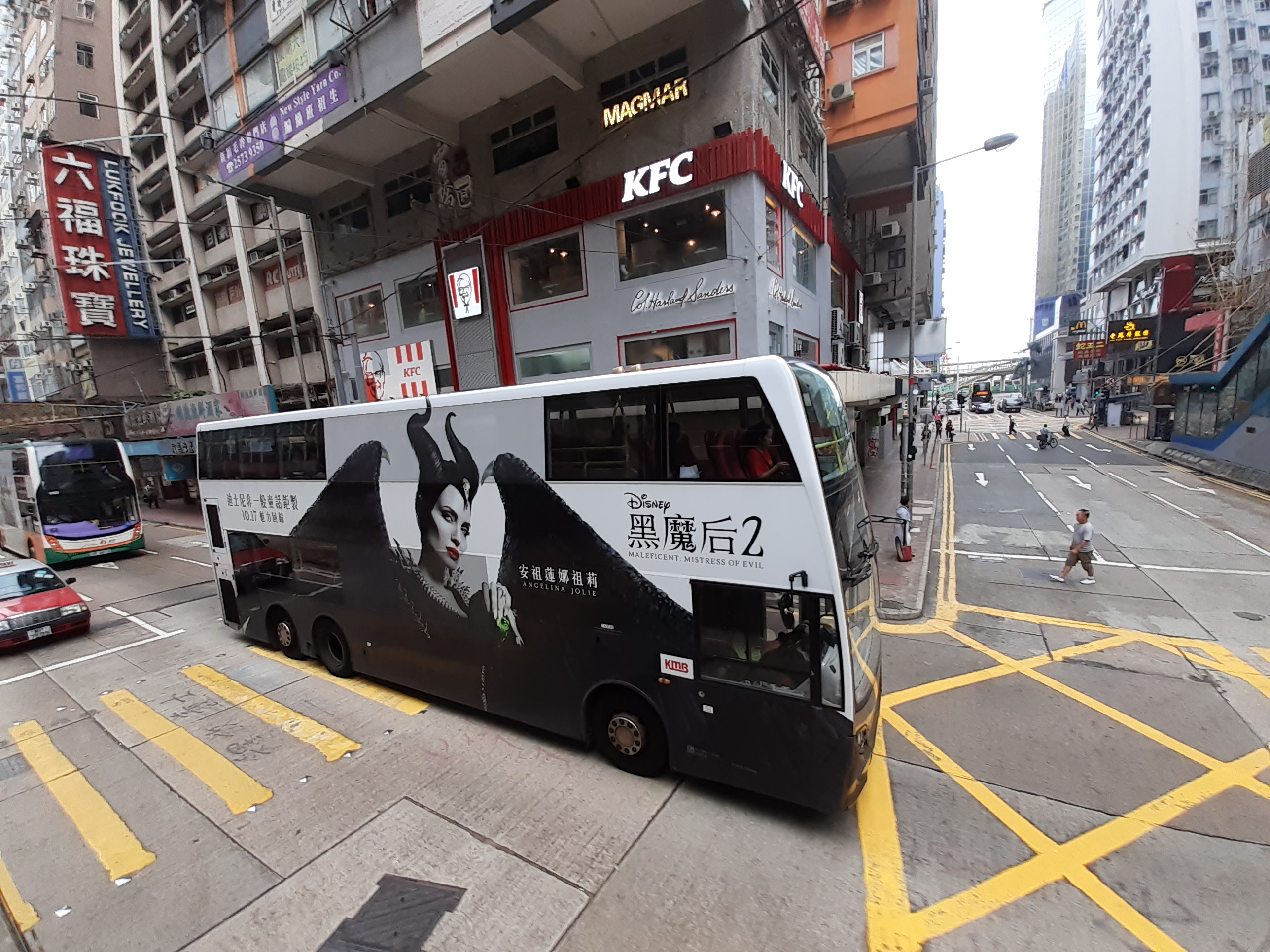 中文（香港）: HK Tram 118 view 灣仔 Wan Chai 軒尼詩道 Hennessy Road in October 2019